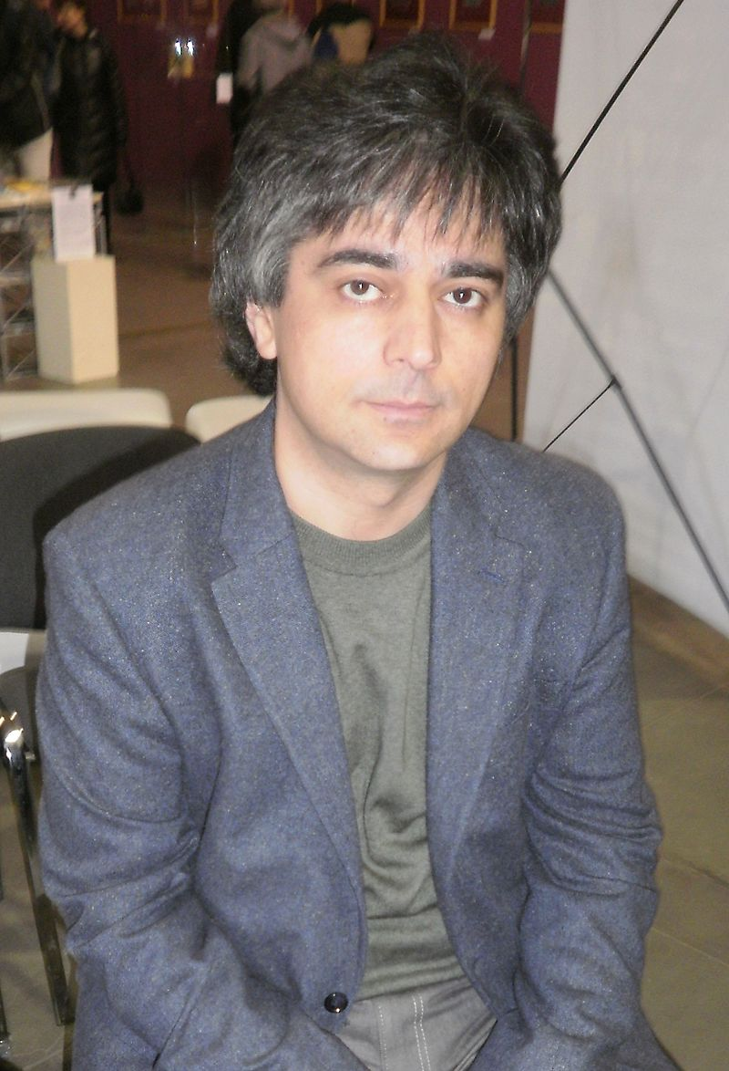 Photo by Aleksandr Volodymyrovych Boychenko